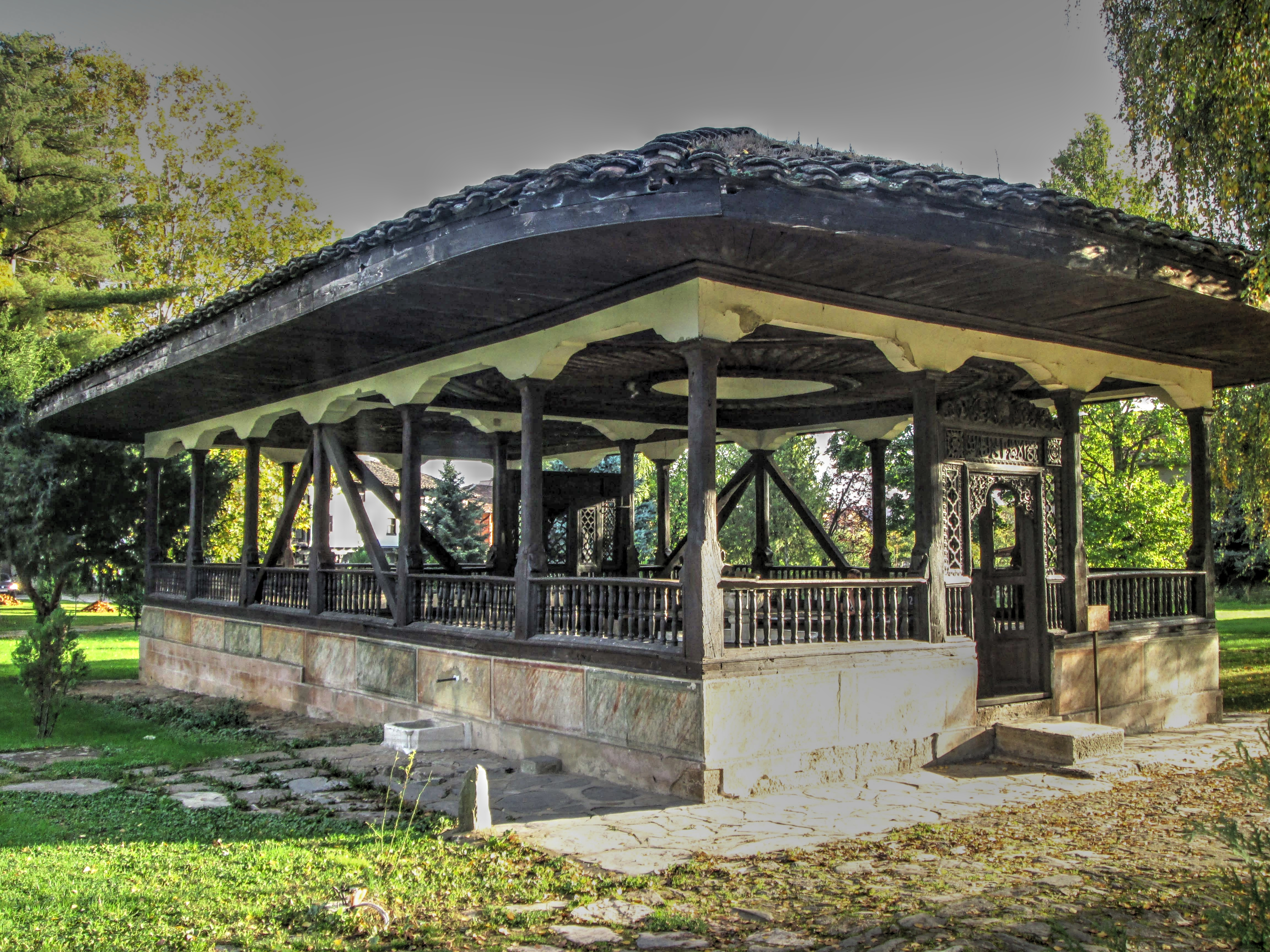 Carved hutch in the central part with a marble fountain for resting in the courtyard of Baba Teke Arabati